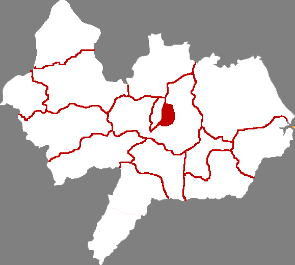 Location of Xinhua district in Cangzhou City, China